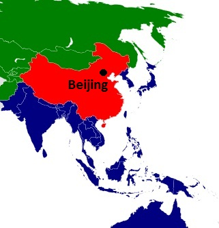 Containment of China according to U.S. Secretary of Defense Robert McNamara